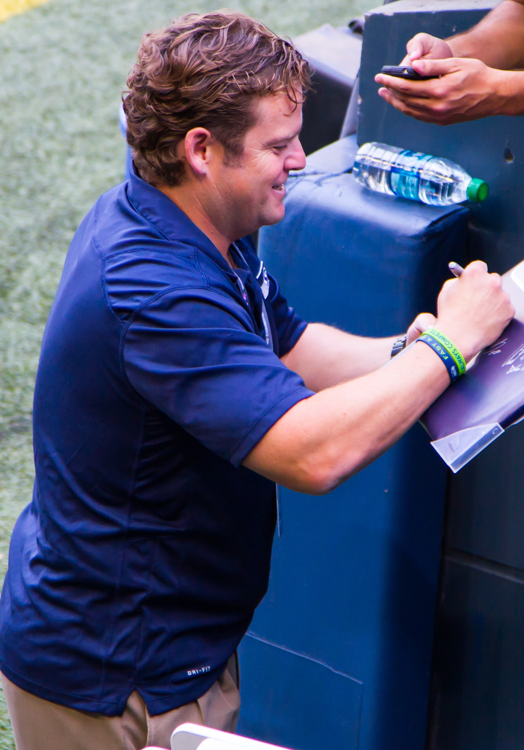 John Schneider signing autographs in 2014 preseason